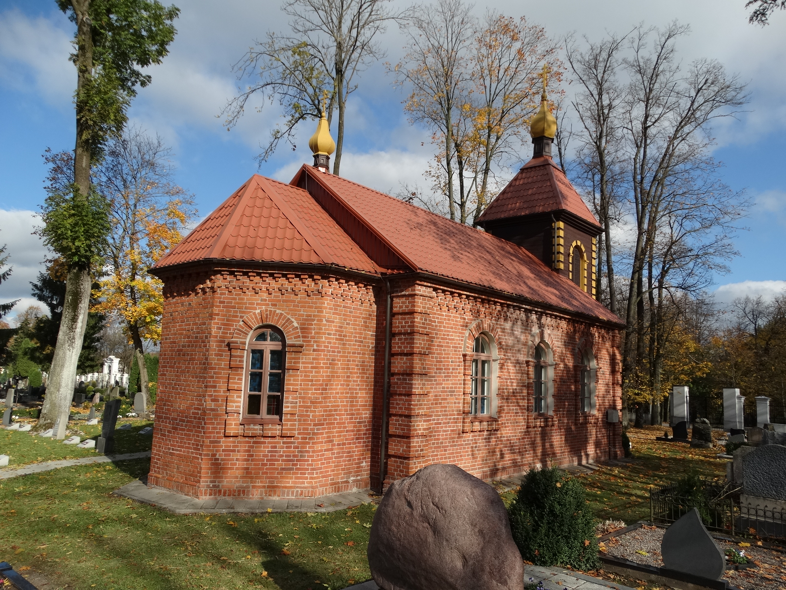 Russian Orthodox Church in Marijampolė, Lithuania